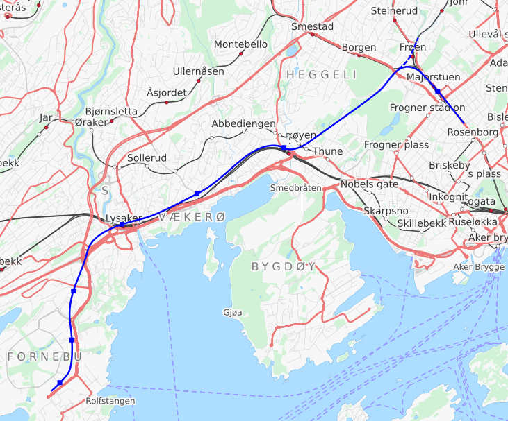 Map of Fornebubanen